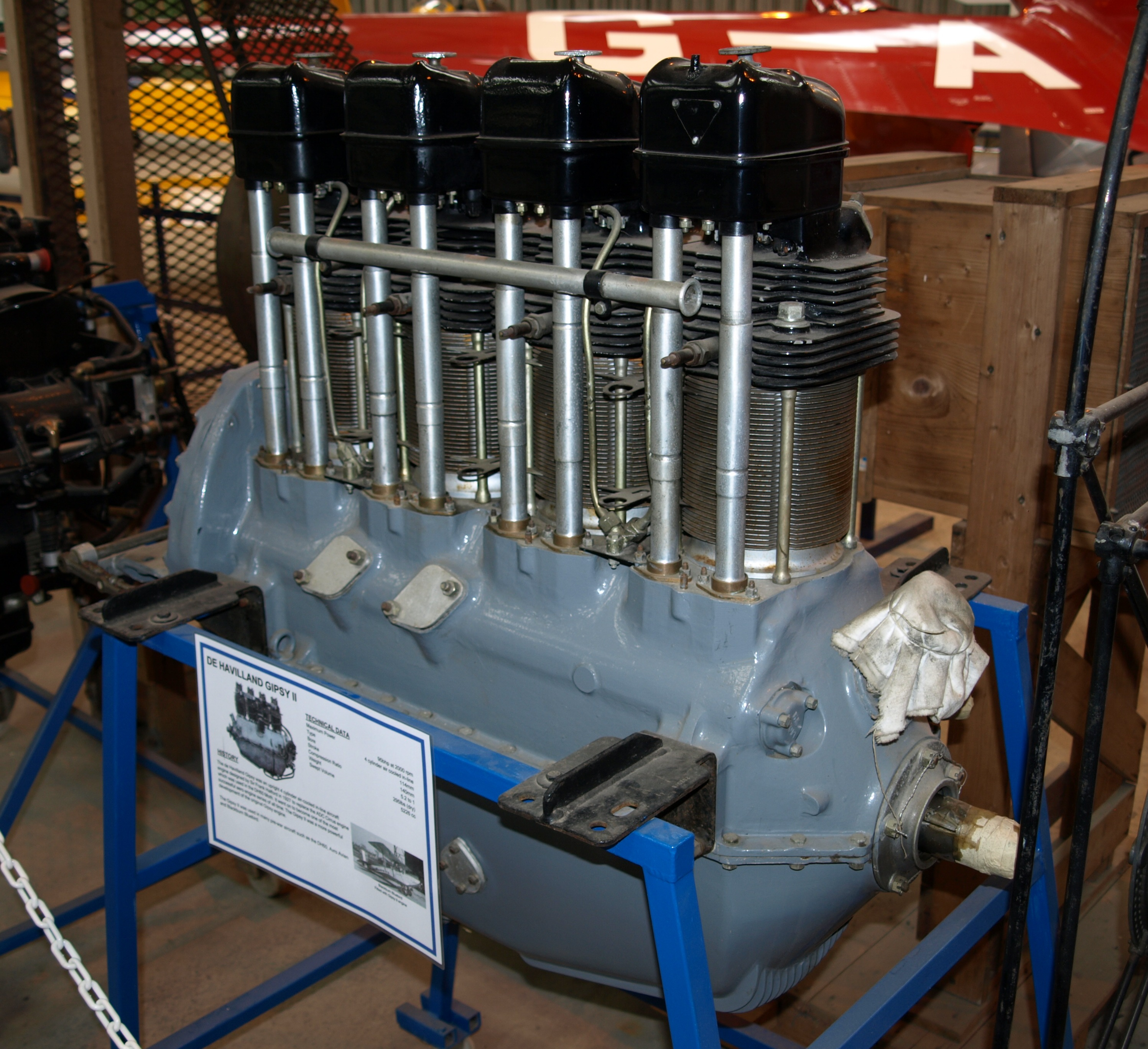 De Havilland Gipsy II aero engine on display at the Shuttleworth Collection, Bedfordshire, England.